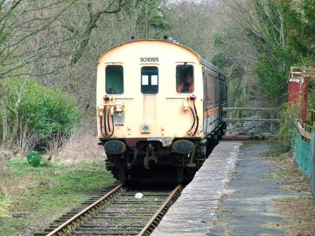 Warcop Railway Station, Eden Valley Railway. Two former Southern Region Battery powered full brakes are used to propel a brake van on short trips towards Appleby